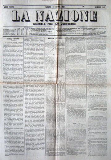 first page